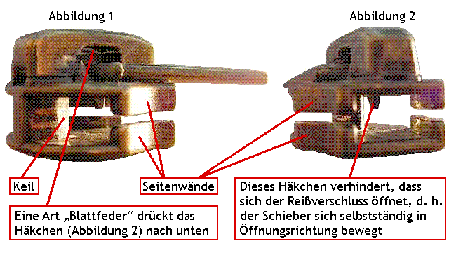 Zipper Slider